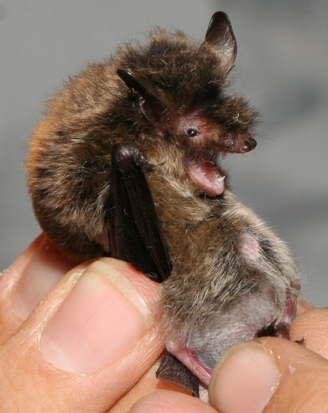 Bat called Myotis brandtii, species determined by expert